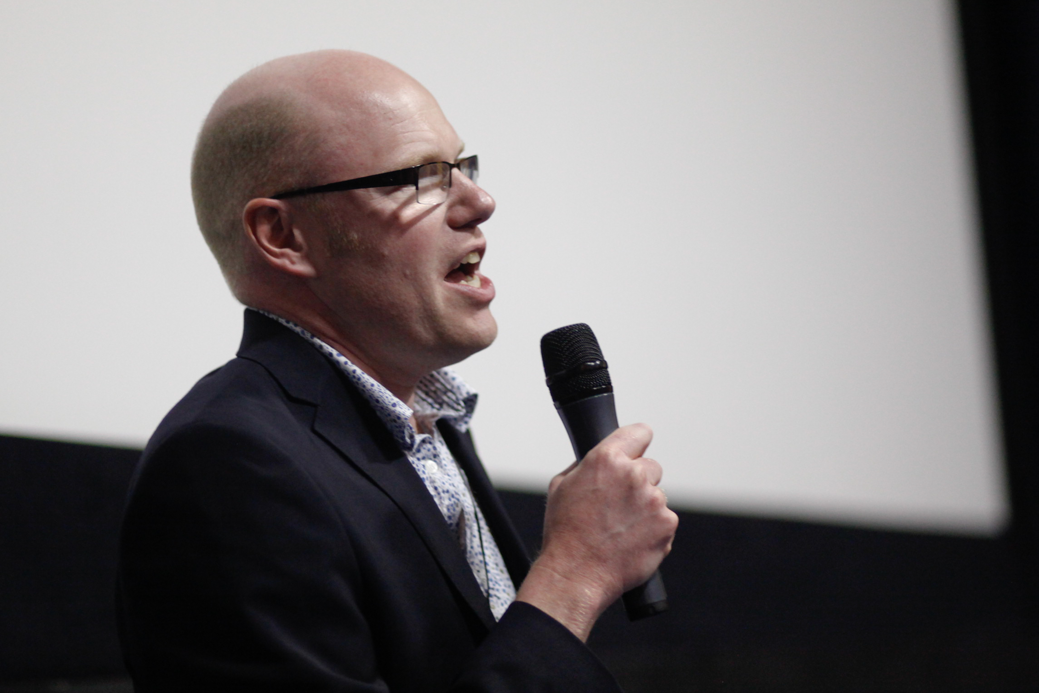 YOU'VE BEEN TRUMPED director Anthony Baxter during a Q&A at the 2012 Miami International Film Festival premiere of You've Been Trumped at Regal South Beach Cinemas